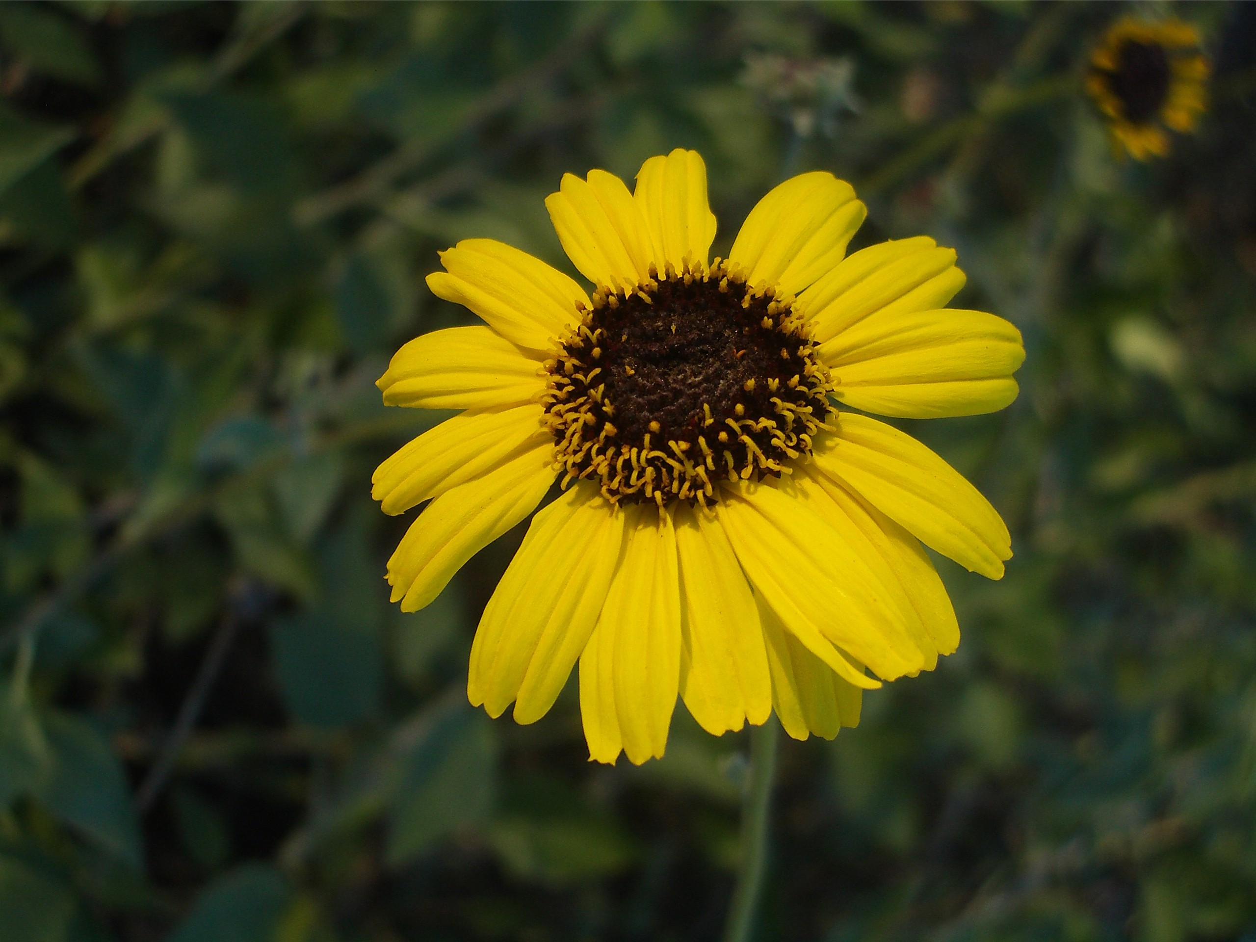 Photo of Encelia californica or California Sunflower.